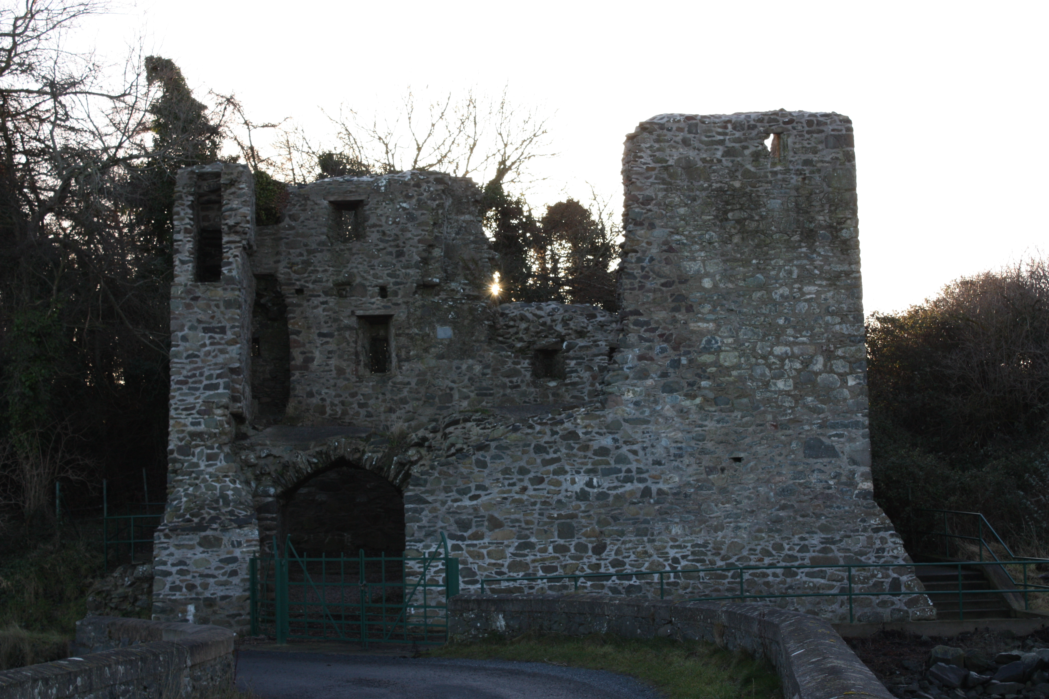 Mahee Castle, Ringneill Road, Mahee Island, County Down, Northern Ireland, January 2011